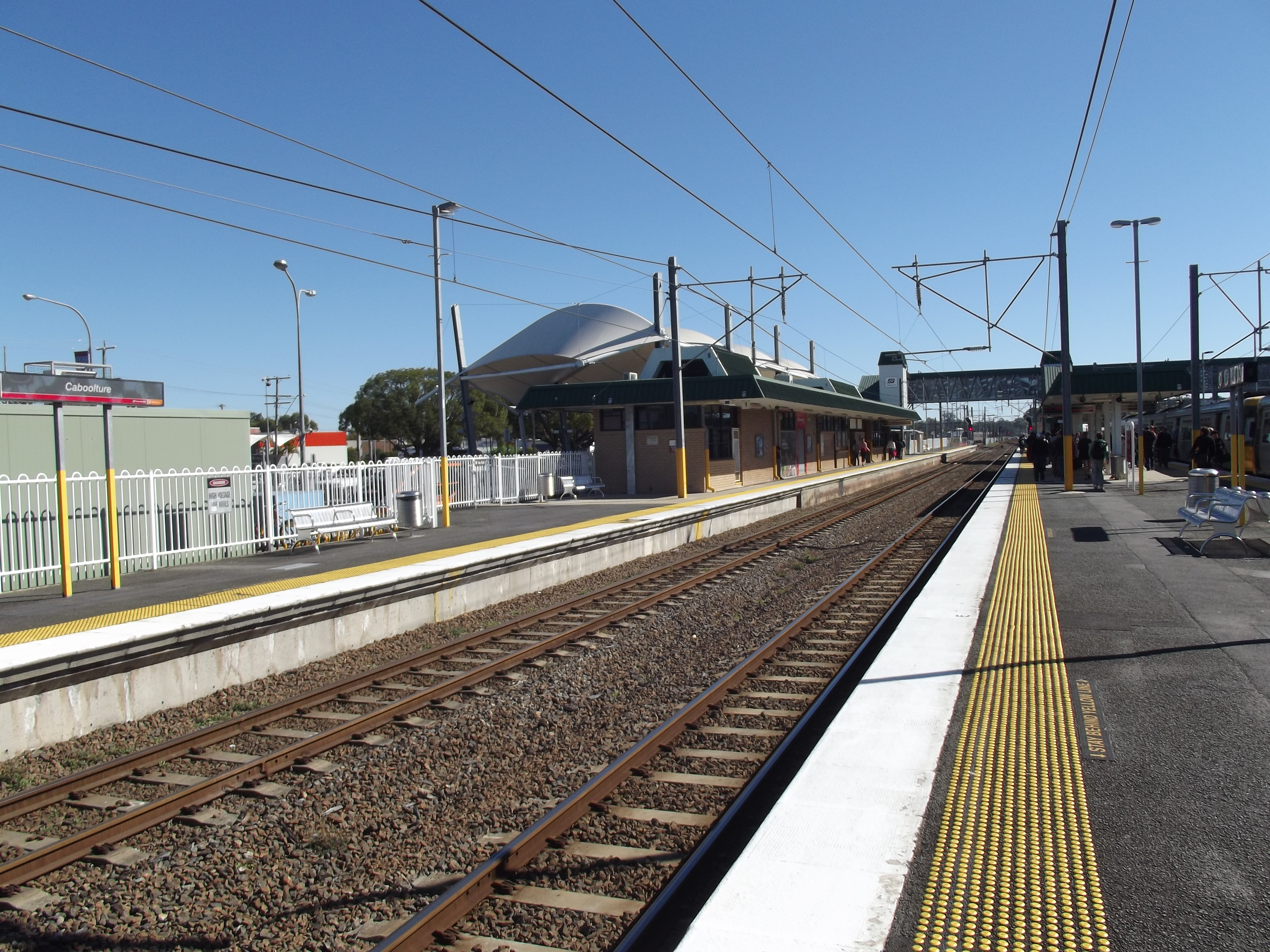 A photo of the Caboolture railway station, on the Caboolture and Nambour lines.